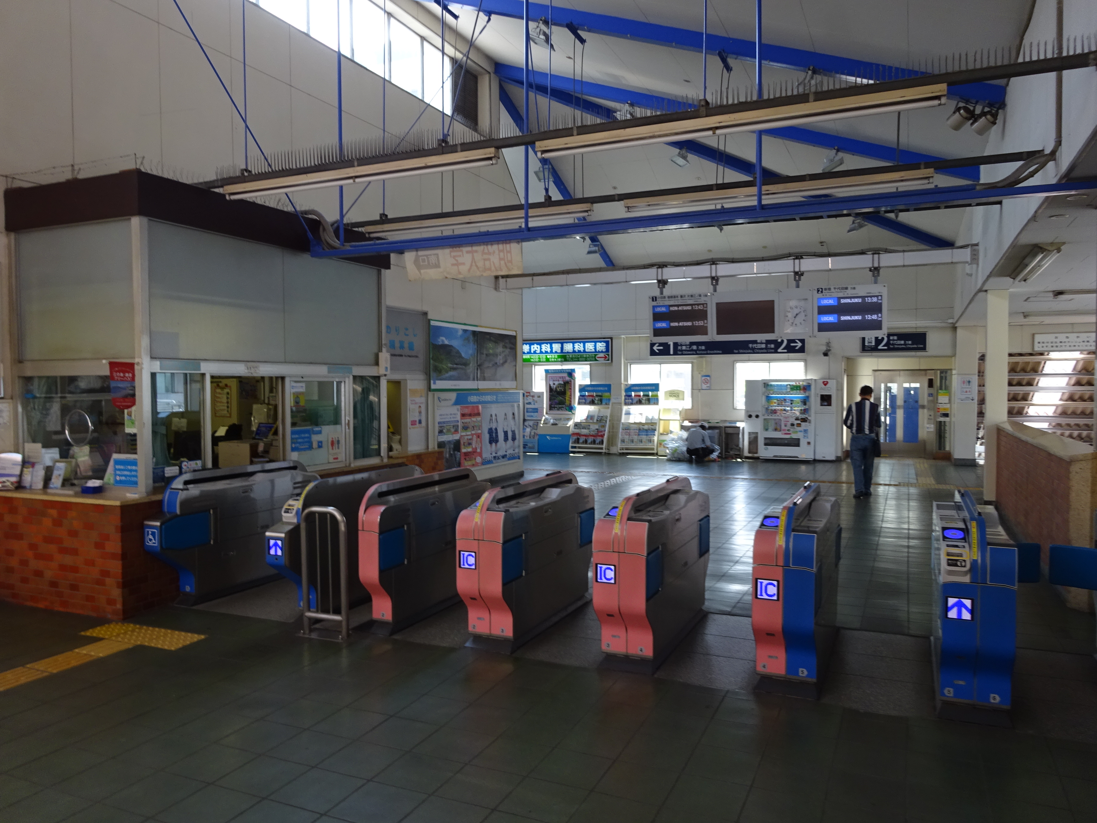 Ticket barriers of Ikuta Station